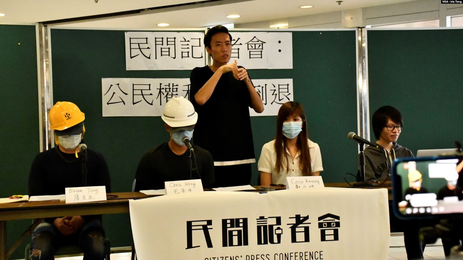 The fifth Citizens' Press Conference, with the theme “The Onslaught on Civil Rights”.